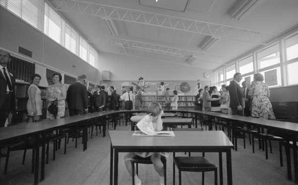 Merrilands Primary School, Keon Park, Vic. 3073. Opening of Library